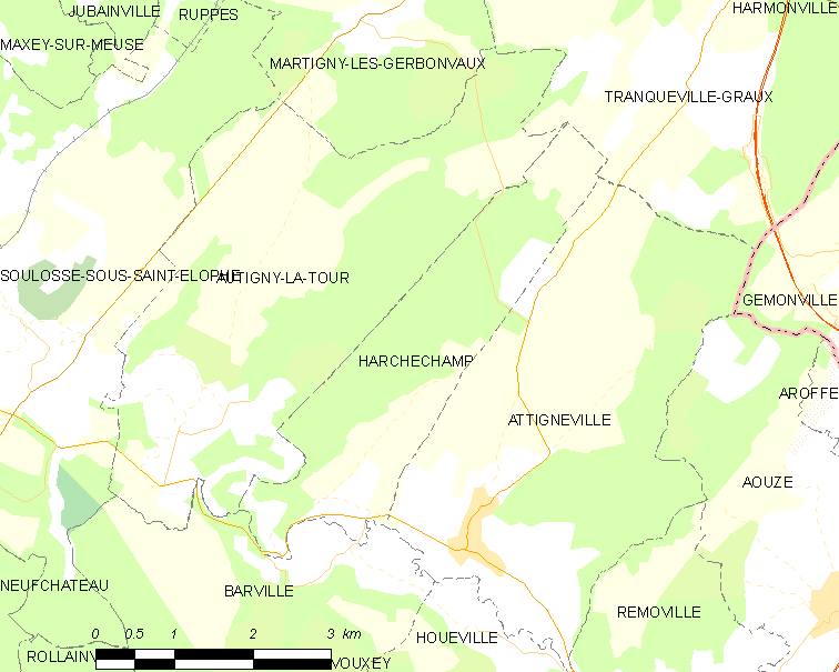 Map of French municipality Harchéchamp